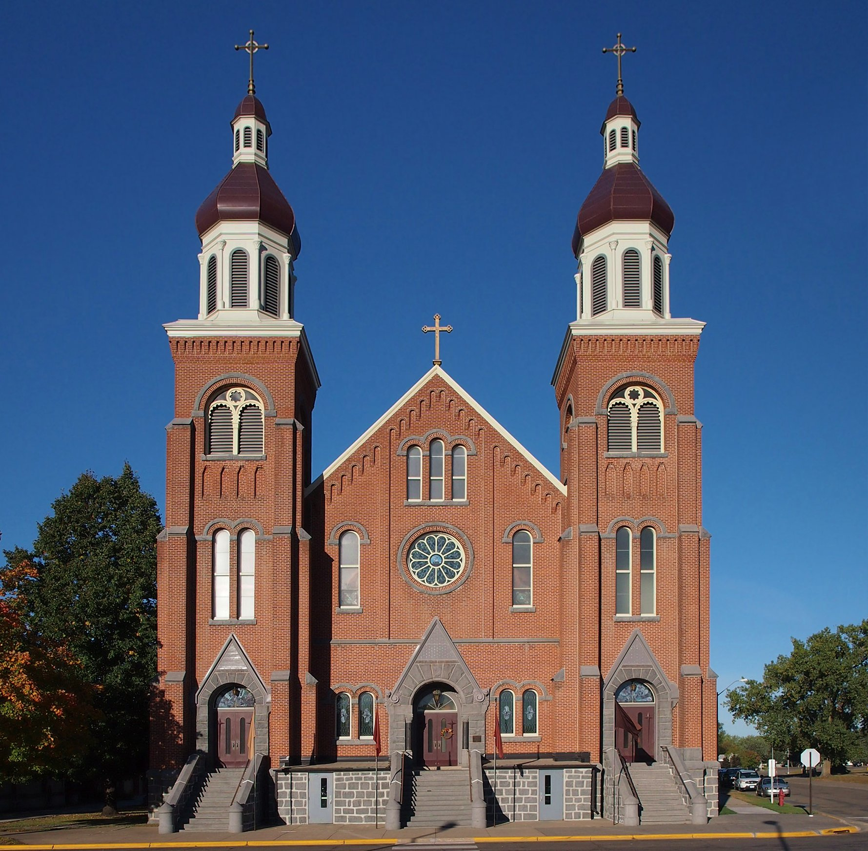 Church of St Boniface (now the Church of St. Mary), 203 S 5th Ave E, Melrose, Minnesota, USA. Viewed from the east.